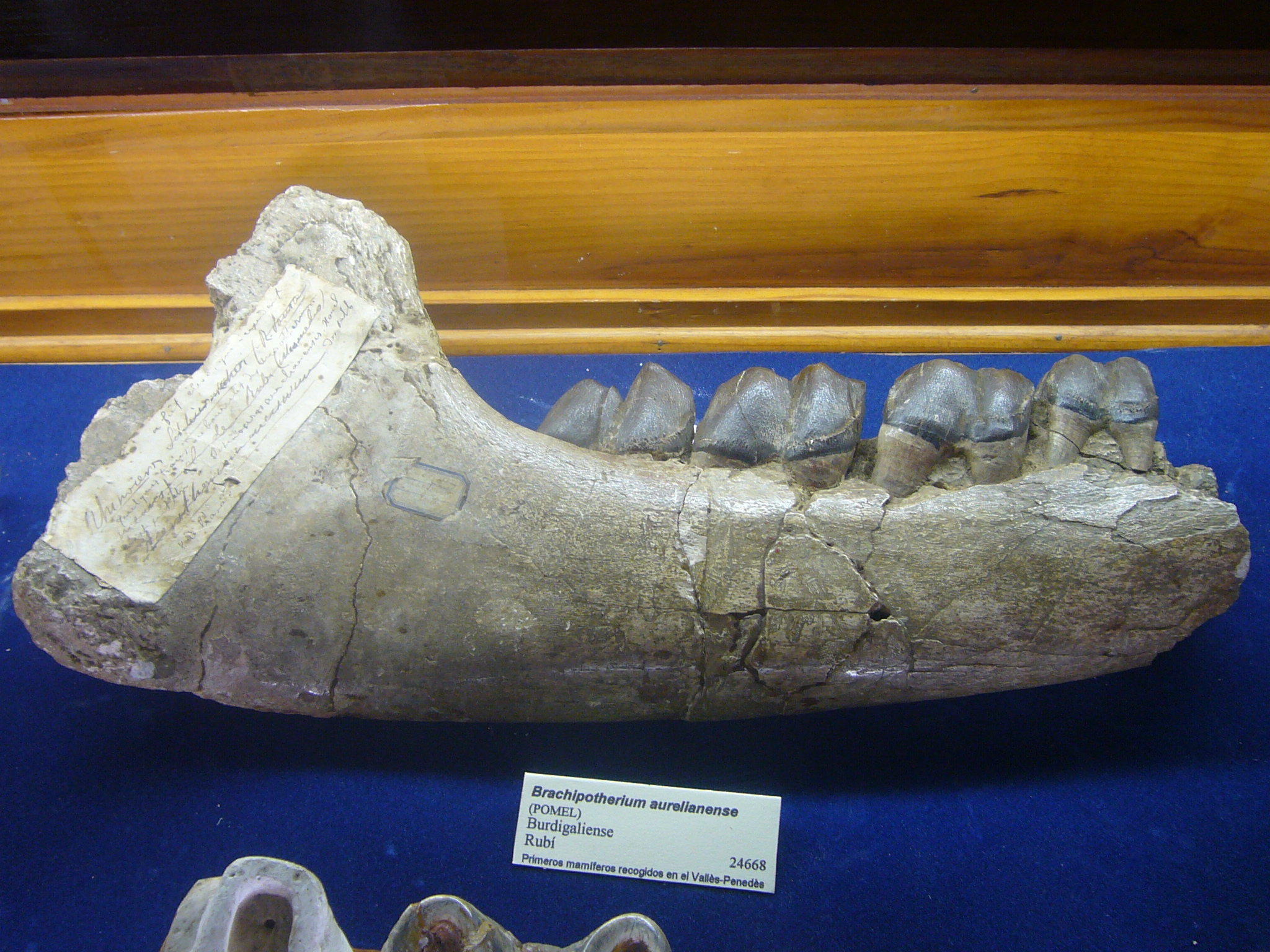 Brachipotherium aurelianense, from Rubí. Fossils. Collection of paleontology of the Geological Museum of the Barcelona Seminari (Museu Geològic del Seminari de Barcelona).